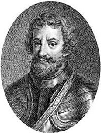 Macbeth of Scotland